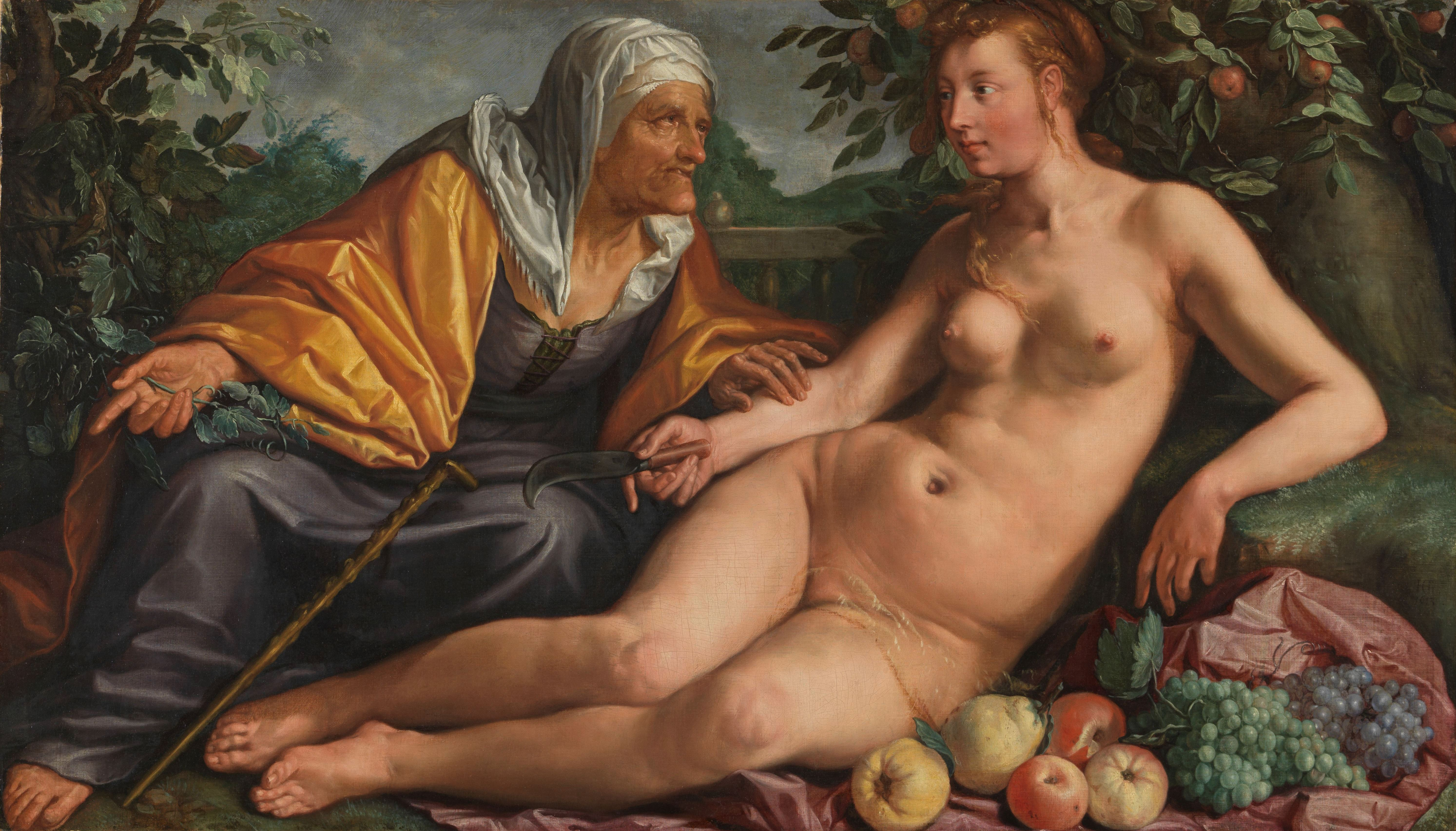 In the shape of a woman, Vertumnus talks to his beloved Pomona. With his right hand Vertumnus grabs a vine. Between his legs rests a walking stick. Pomona lays under an apple tree and holds a knife in her right hand with which she harvests fruit. On the foreground, right, are aples, pears and grapes.